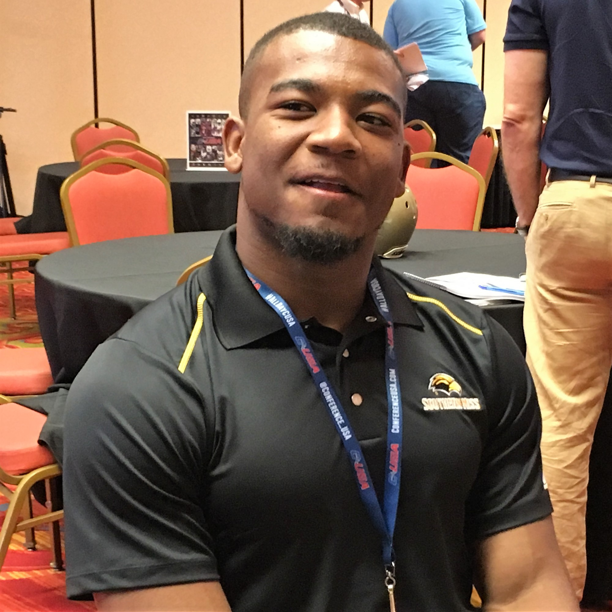 Ito Smith, running back for the Southern Miss Golden Eagles football team, at the 2017 Conference USA media days in Irving, Texas.